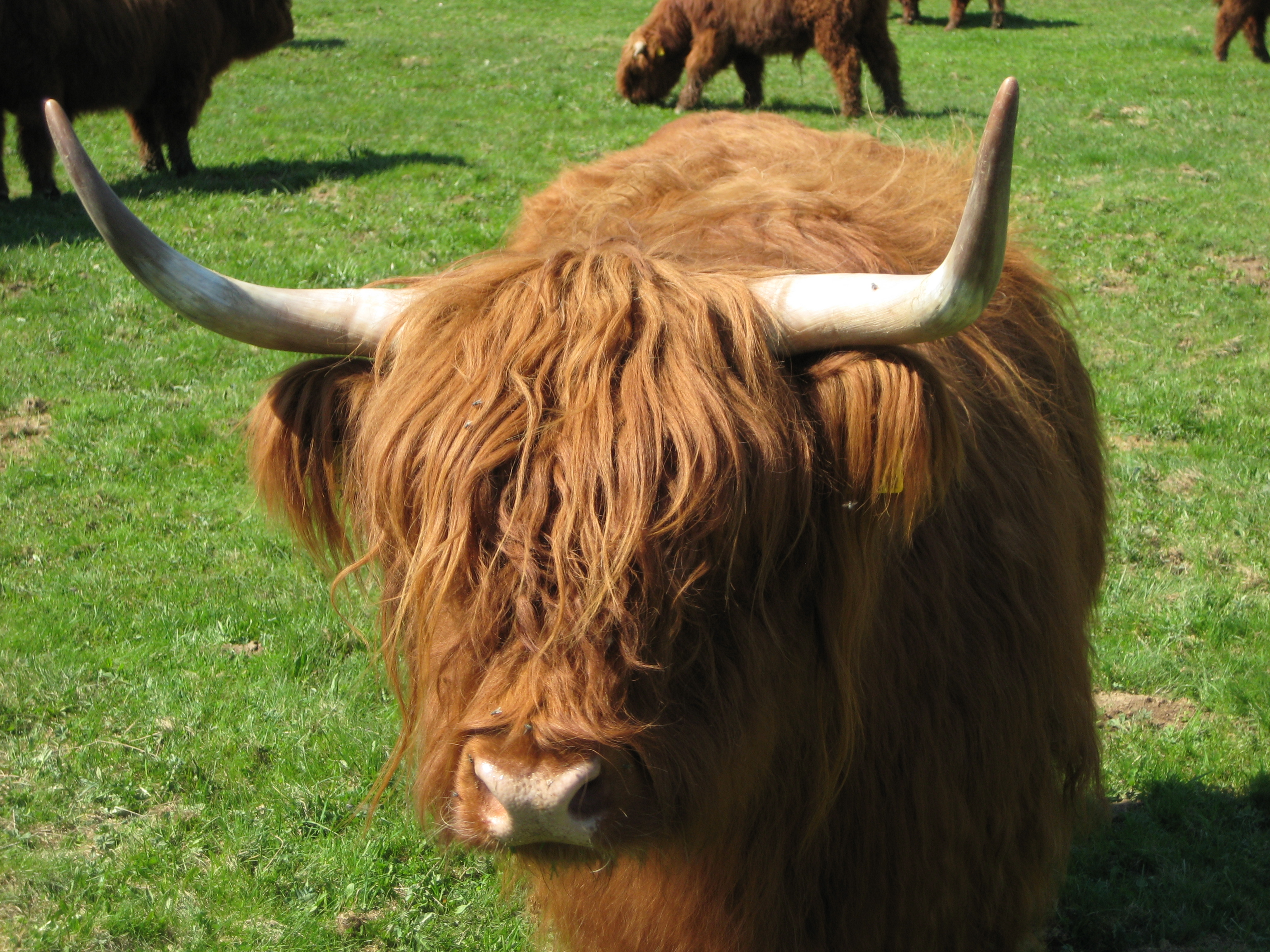 Highland cattle